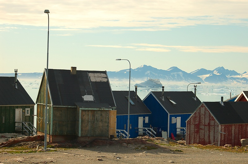 Scoresbysund, East-Greenland